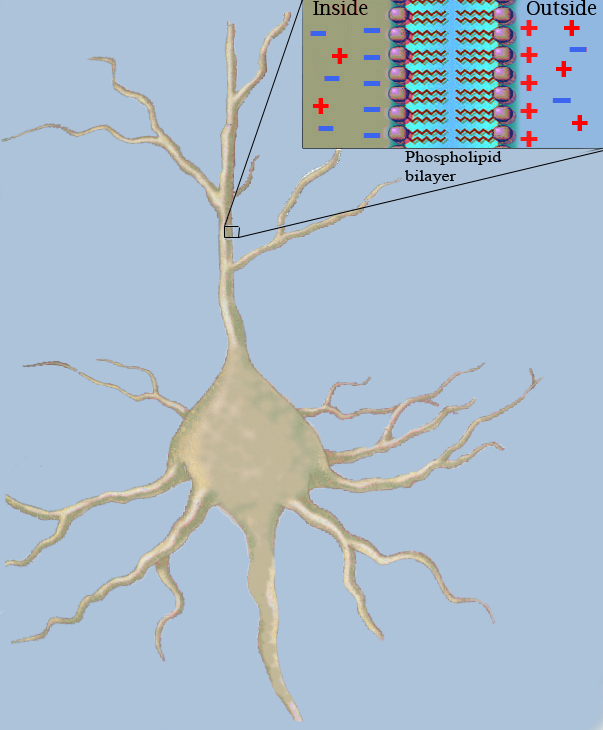 The phospholipid bilayer is so thin that electrostatic forces (opposite charged particles attract each other) can act through it. As a consequence negative and positive ions (the minuses and plusses) line up along the membrane.